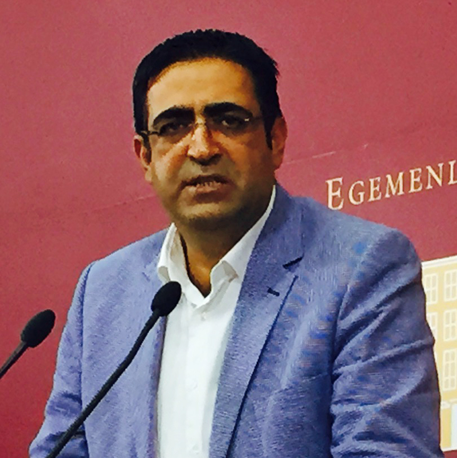 HDP MP İdris Baluken in 2015.